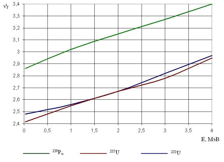 Prompt neutrons